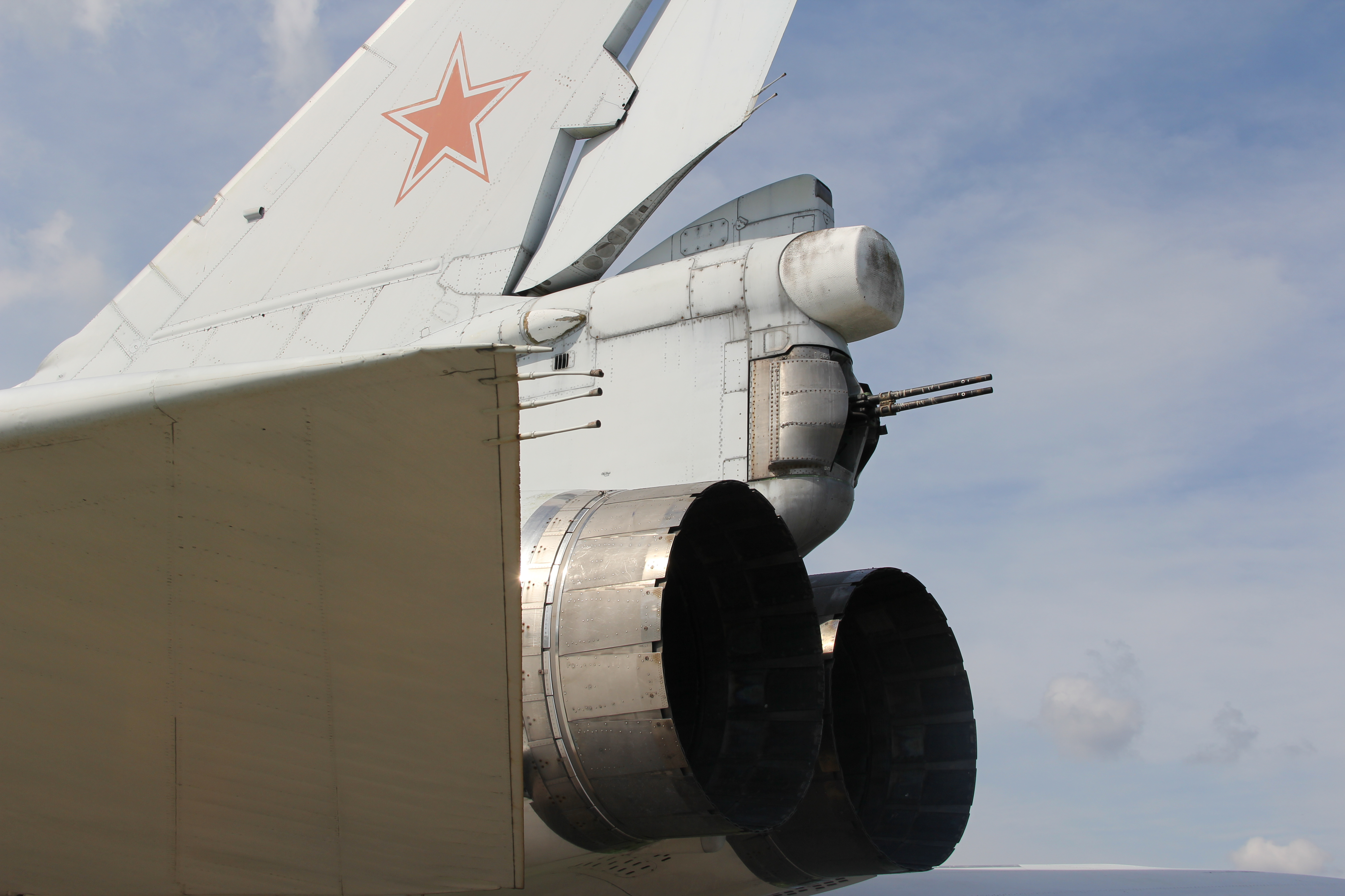 Tupolev Tu-22m, NATO "Backfire"